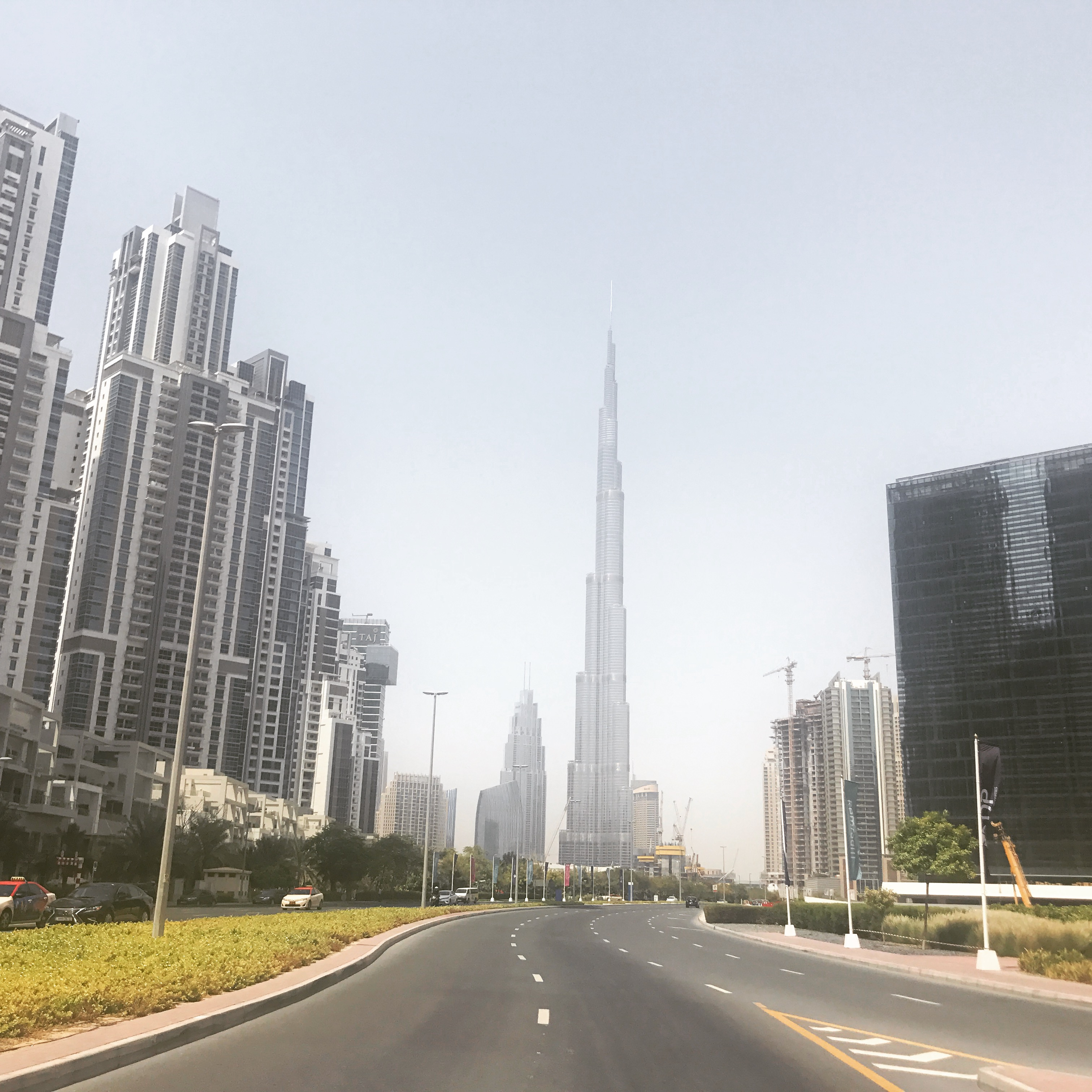 Dubai Skyline from Business Bay - Dubai